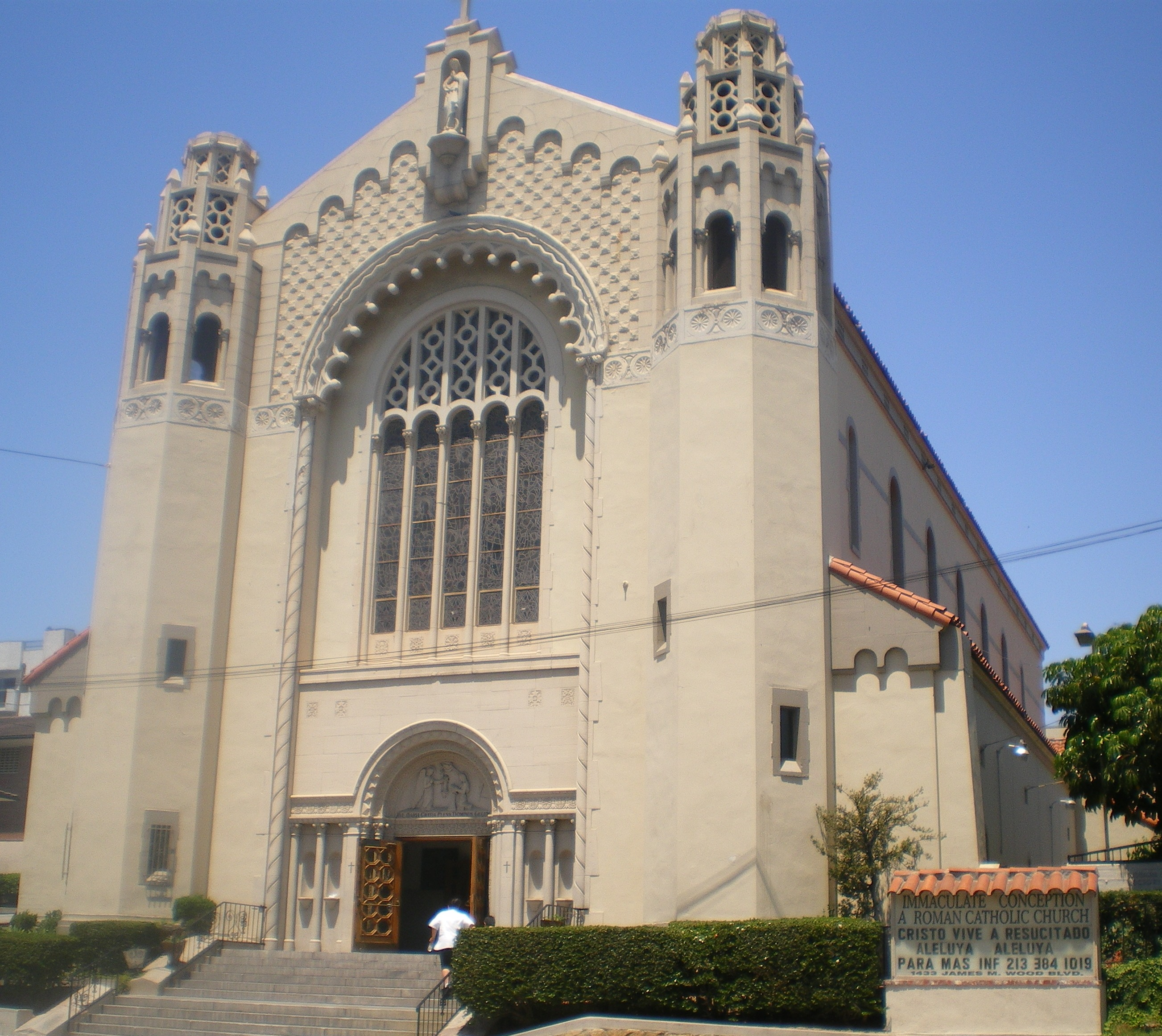 Immaculate Conception Catholic Church, 1433 James M. Wood Boulevard, Los Angeles, California